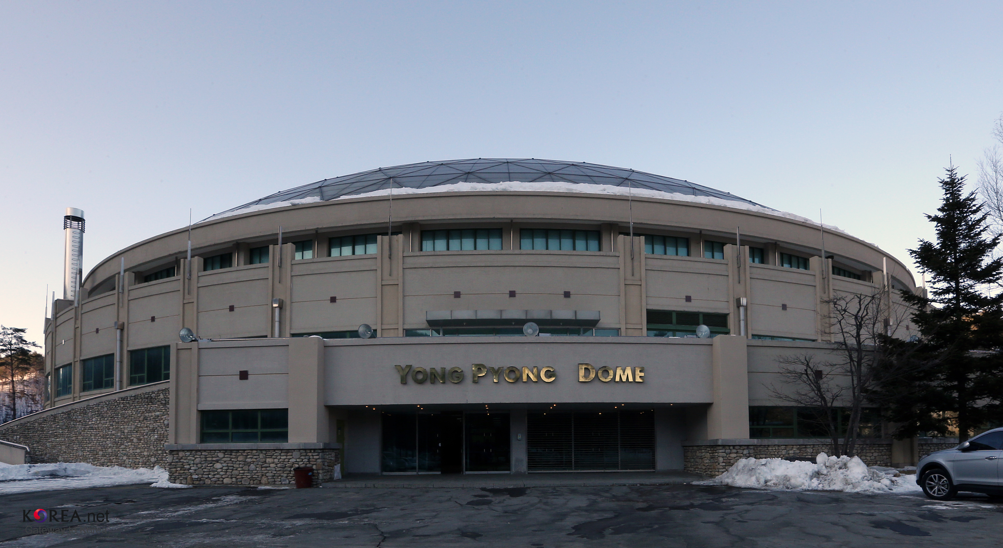 2013 PyeongChang The Special Olympics World Winter Games Media Day Yong Pyong Dome, PyeongChang, Gangwon-Do 2013.01.10. Ministry of Culture, Sports and Tourism Korean Culture and Information Service Jeon Han 2013 평창 동계 스페셜올림픽 세계대회 미디어데이 용평돔, 평창, 강원도 문화체육관광부 해외문화홍보원 코리아넷 전한